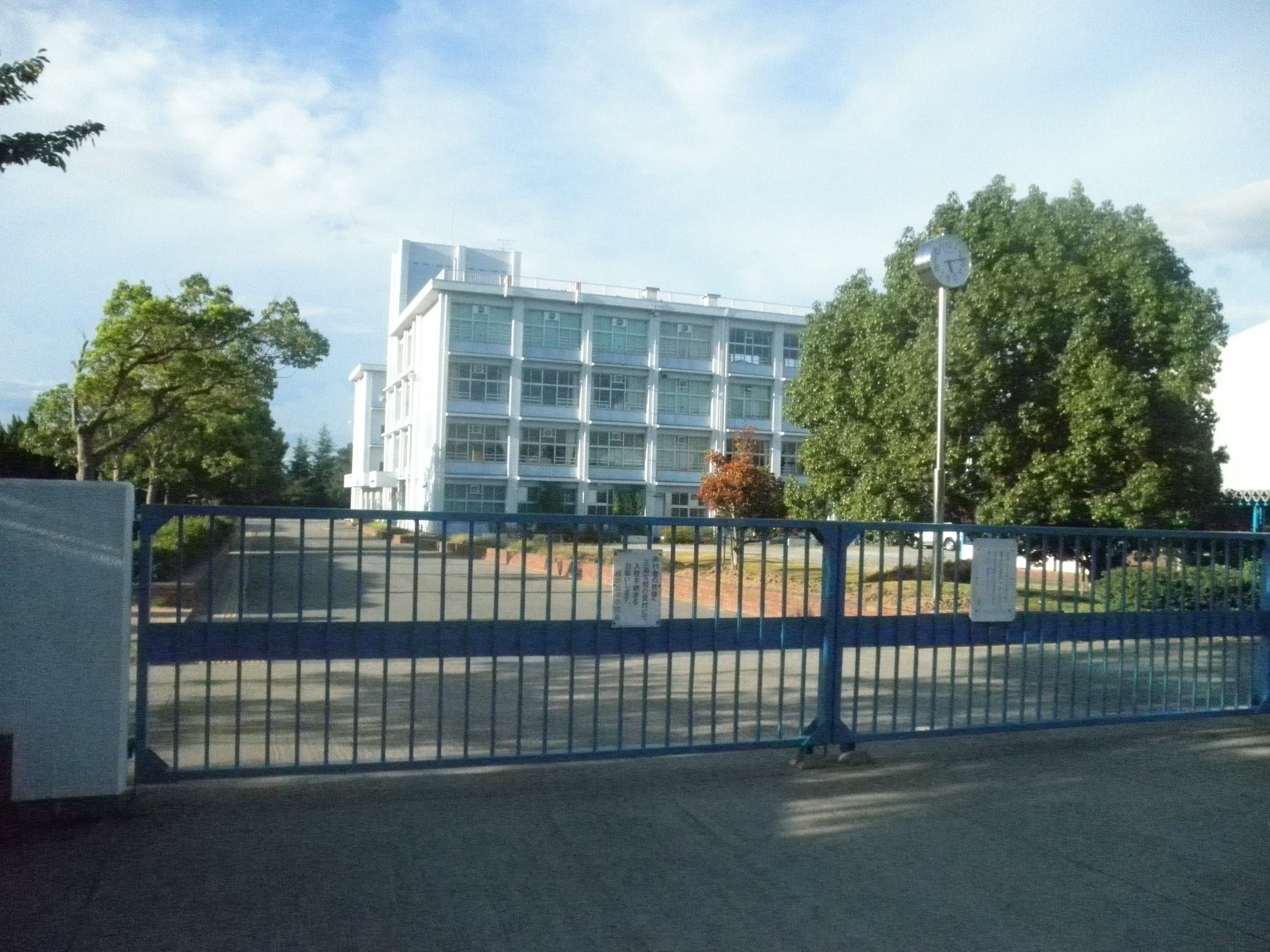 Midorigaoka Junior High School